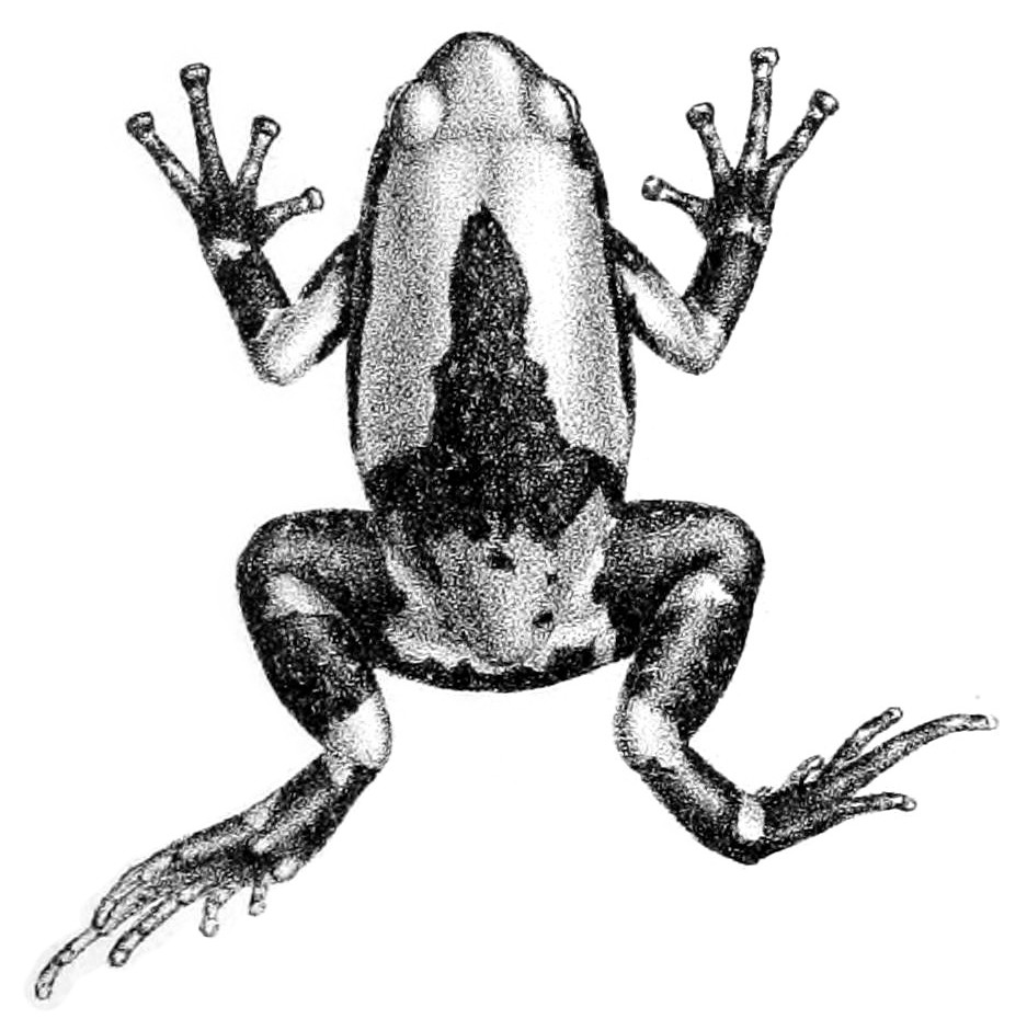 Callula triangularis = Ramanella triangularis